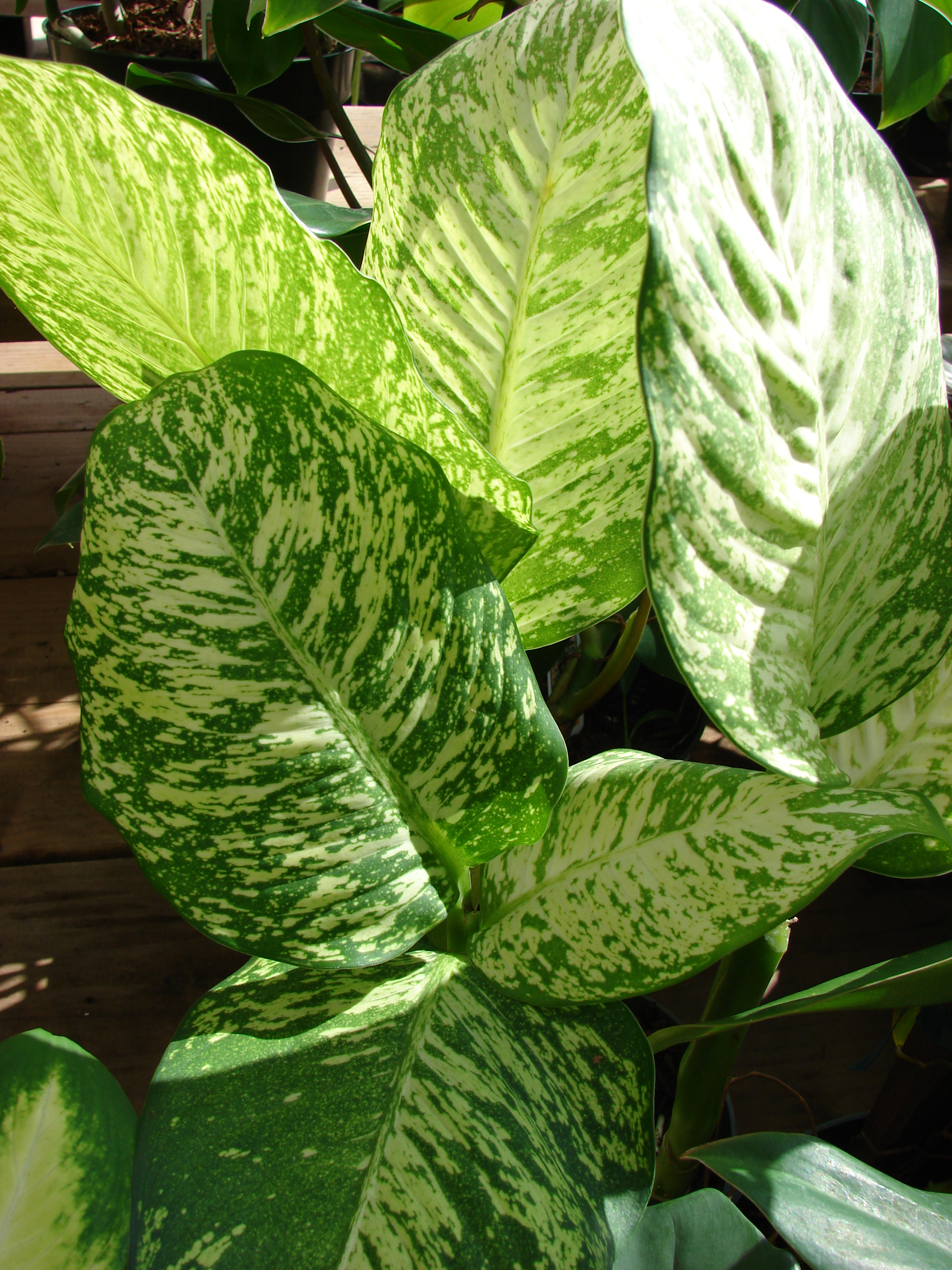 Dieffenbachia sp. (habit). Location: Maui, Home Depot Nursery Kahului